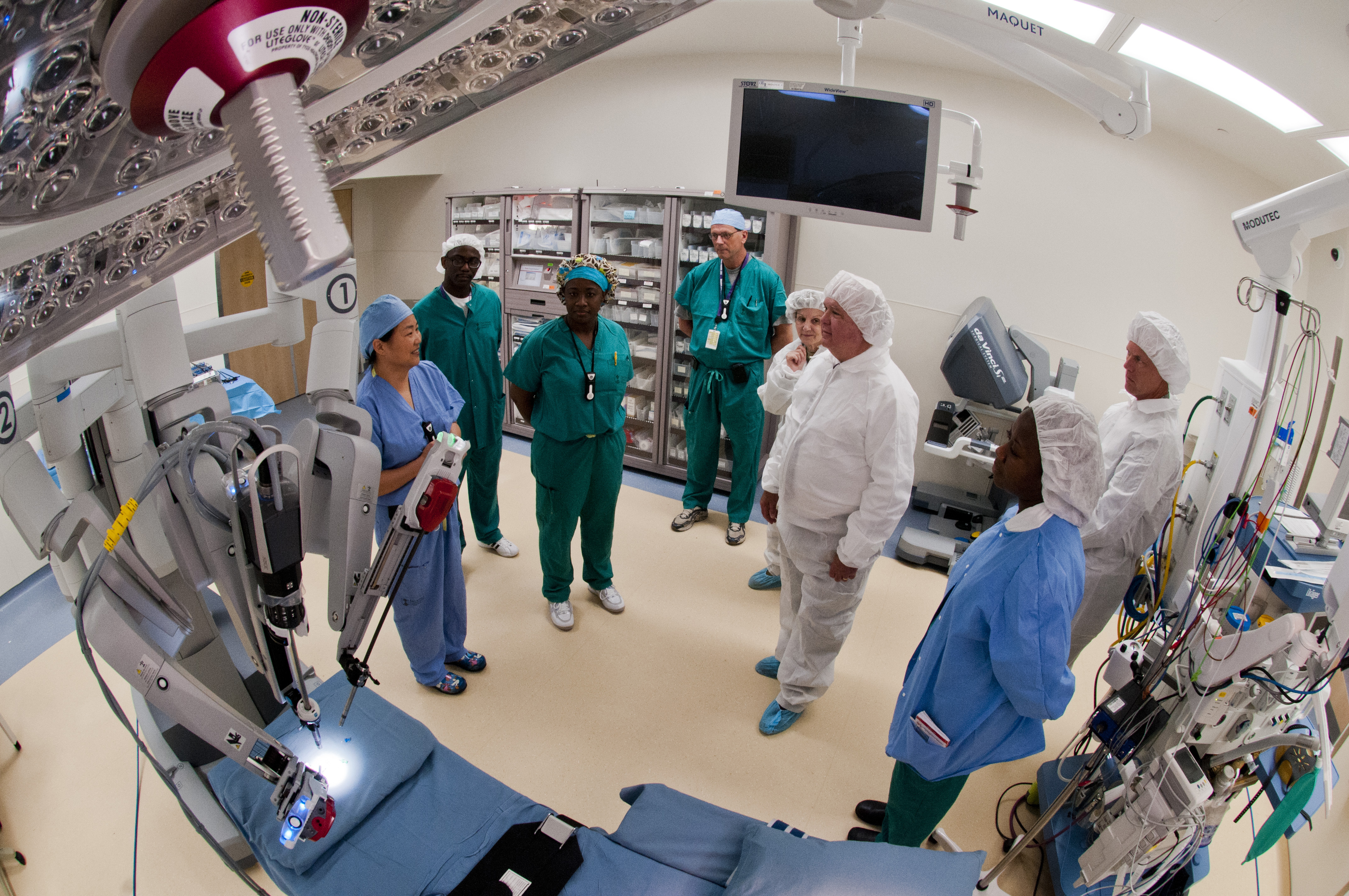 Doctors and nurses show Under Secretary of the Army Joseph W. Westphal their new remote control da Vinci Surgical System, which enables surgeons to perform operations through tiny incisions and is powered by high-tech robotics that gives the surgeon the best possible view with HD cameras at the Fort Belvoir Community Hospital, May 30, 2012, at Fort Belvoir, Va. Dr. Westphal visited Fort Belvoir Community Hospital to gain situational awareness and ensure the Army is correctly prioritizing, balancing and integrating resources to support the mission of this vital organization. Unit: Secretary of the Army